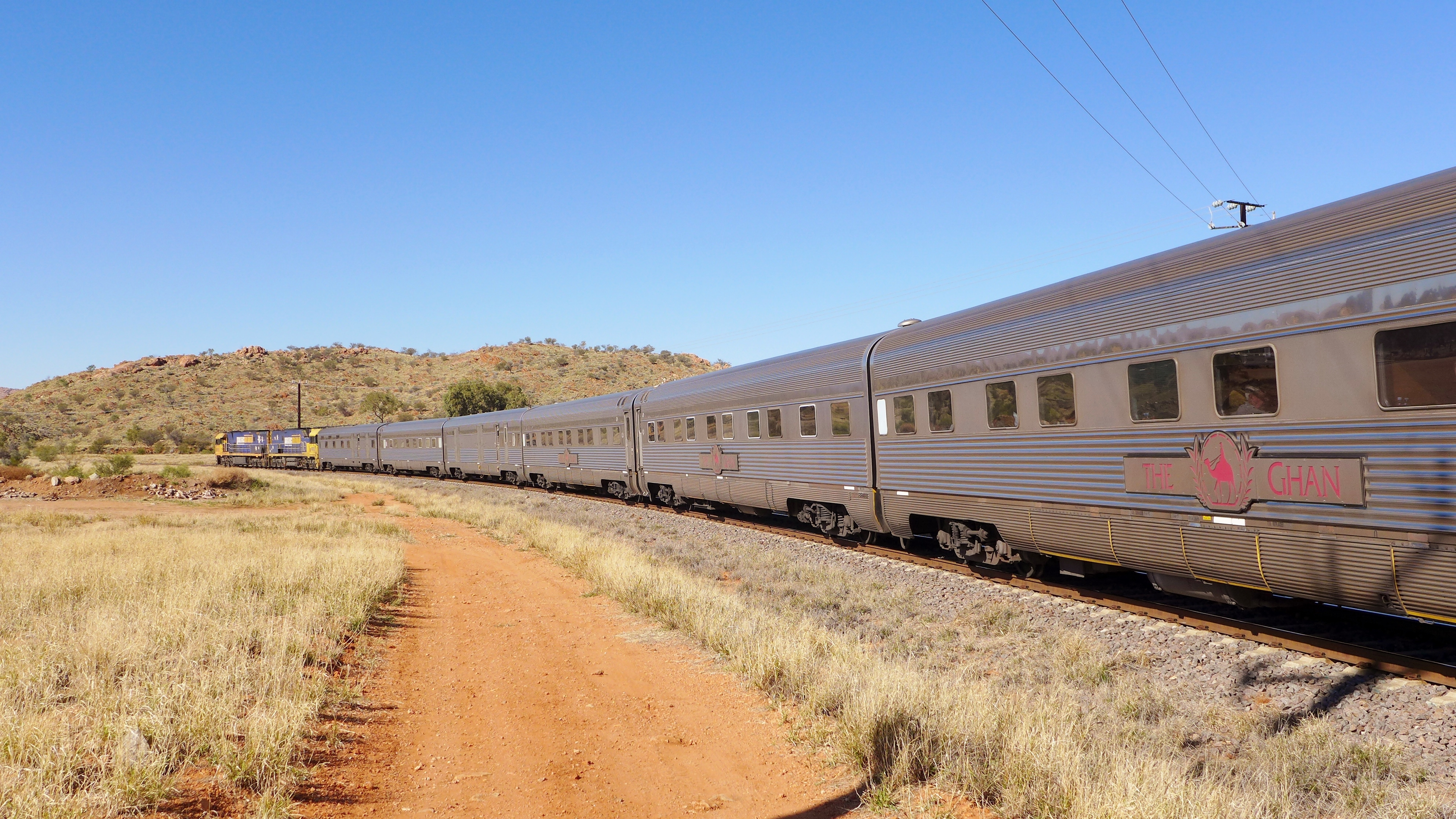 NR45 and NR10 swing around the final bend before arriving at Alice Springs railway station with the Adelaide-bound four day Ghan from Darwin. Bahnfrend thanks the friendly Alice Springs-based staff of The Ghan for recommending that he be in place to take this picture at least half an hour before the scheduled arrival time; the train turned out to be running about 15 minutes ahead of schedule.